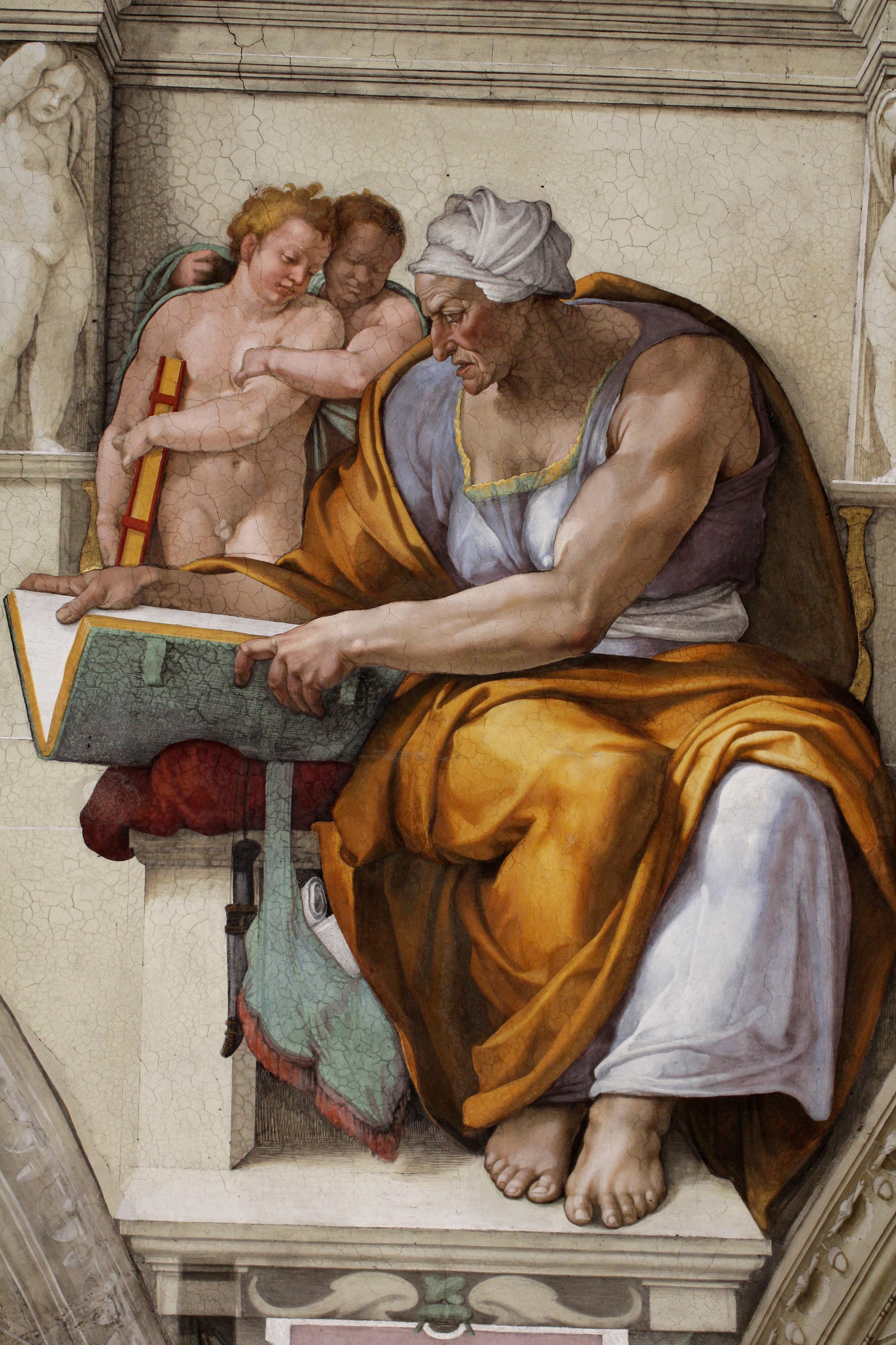 Cumaean Sibyl, fresco painted by Michelangelo (1475-1564), Sistine Chapel Ceiling (1508-1512) Rome, Vatican.